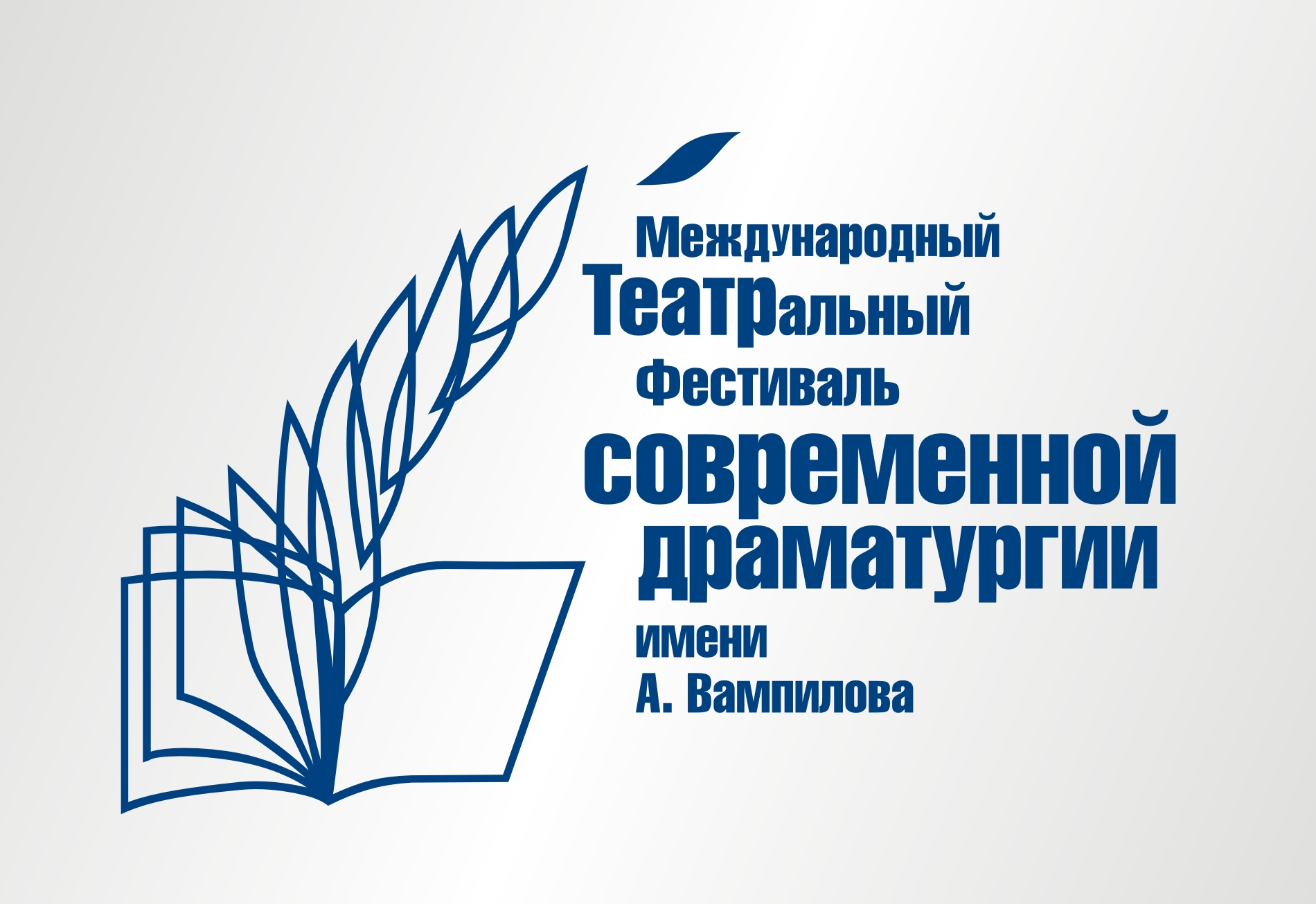 Международный театральный фестиваль современной драматургии им. Александра Вампилова